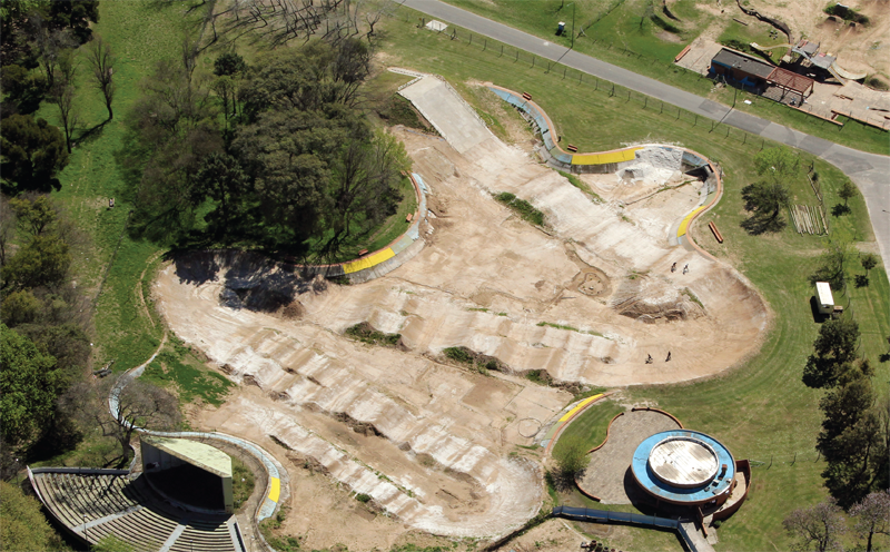 BMX venue at Parque Sarmiento, Buenos Aires